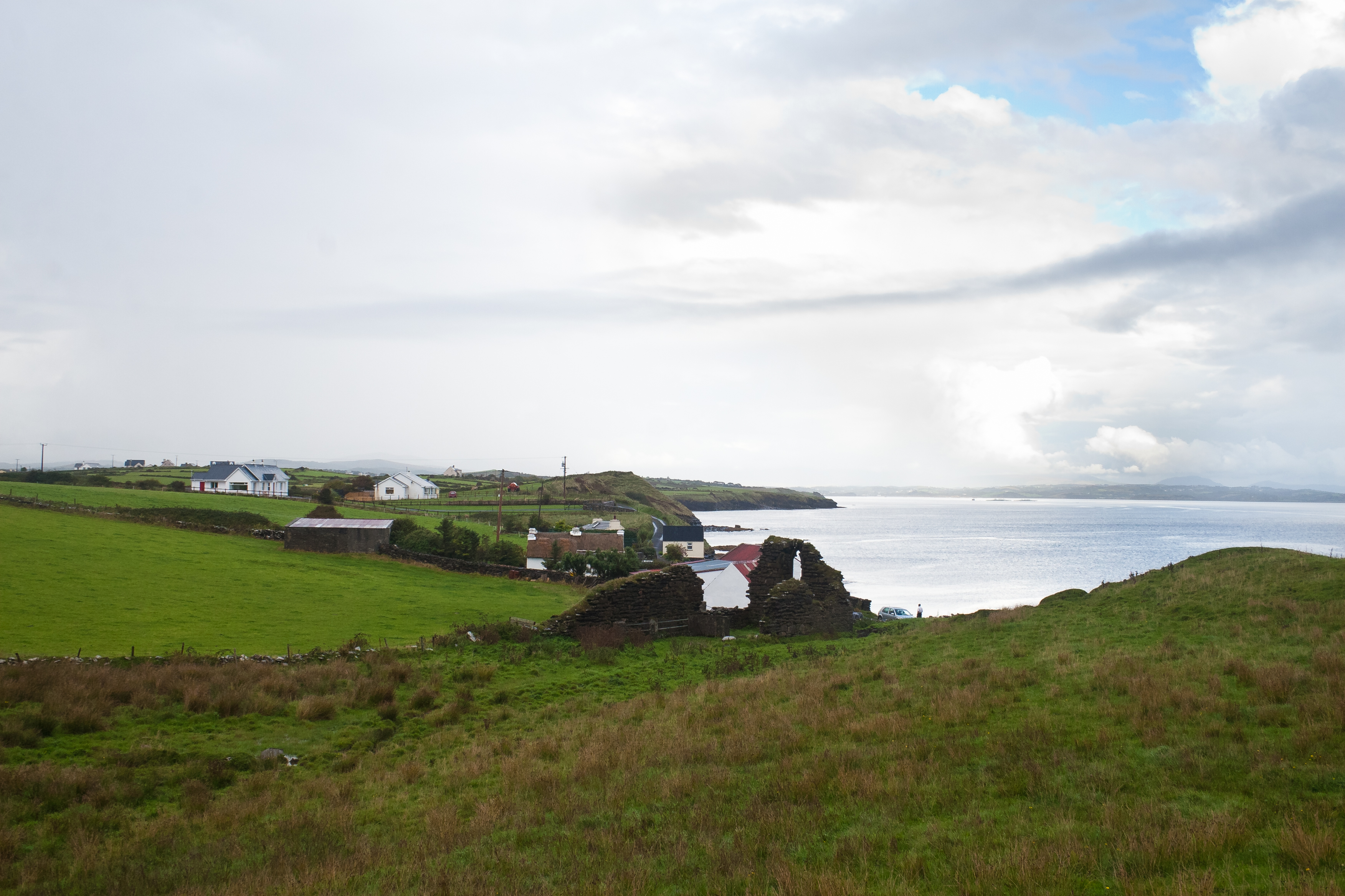 Ballysaggart Friary in front of Inver Bay, looking north-east.